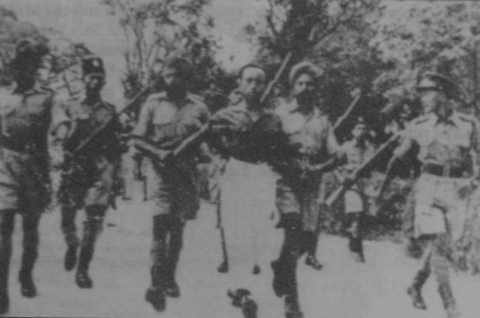 Rosli Dhobi was caught by British officer for murdering Duncan Stewart